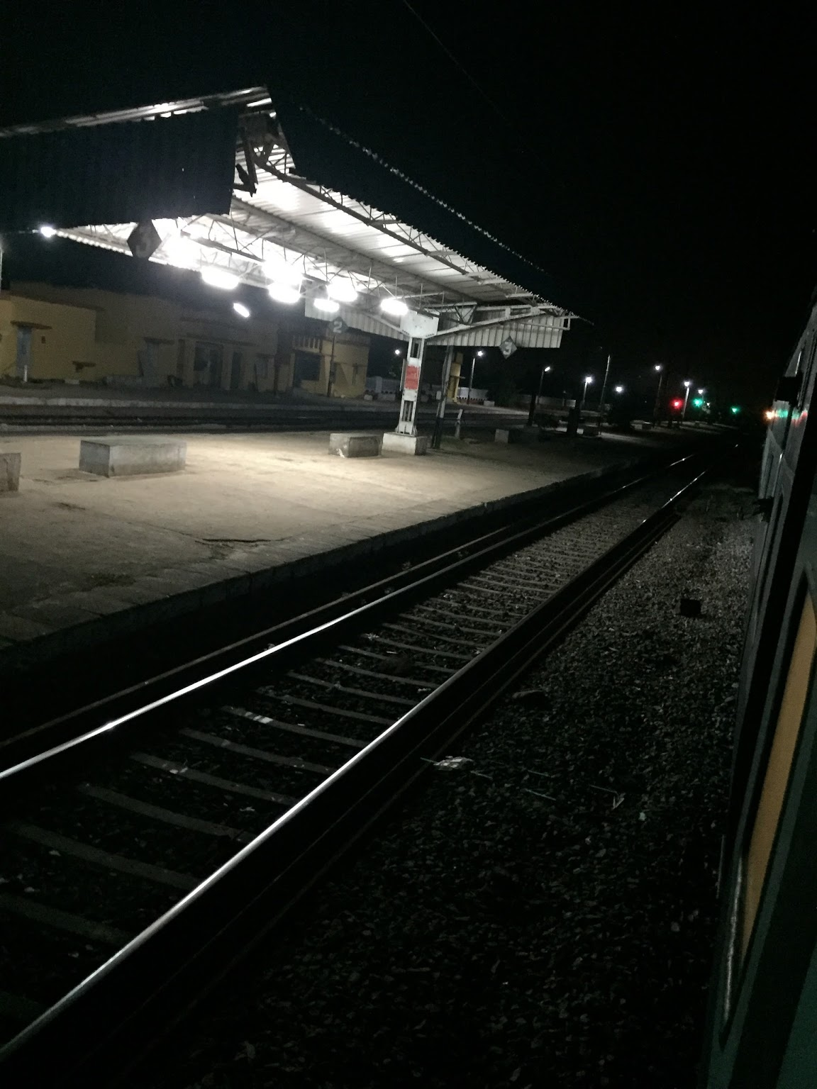 This is the Picture of Ganjam railway station